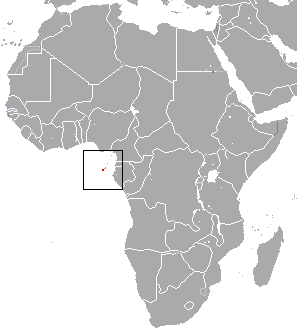 São Tomé Collared Fruit Bat (Myonycteris brachycephala) range